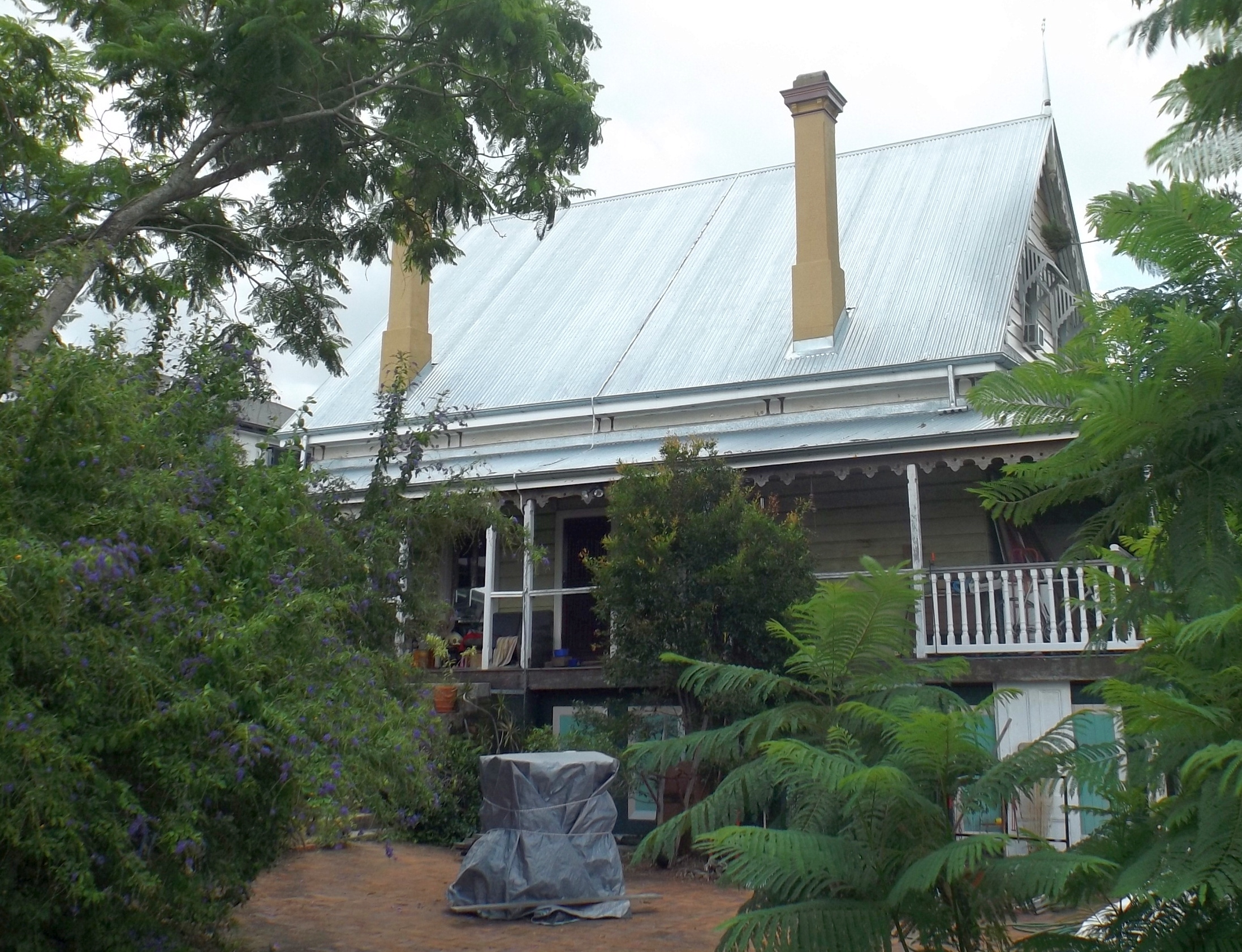 Photo of Coorooman residence at South Brisbane, Brisbane, Queensland, Australia.